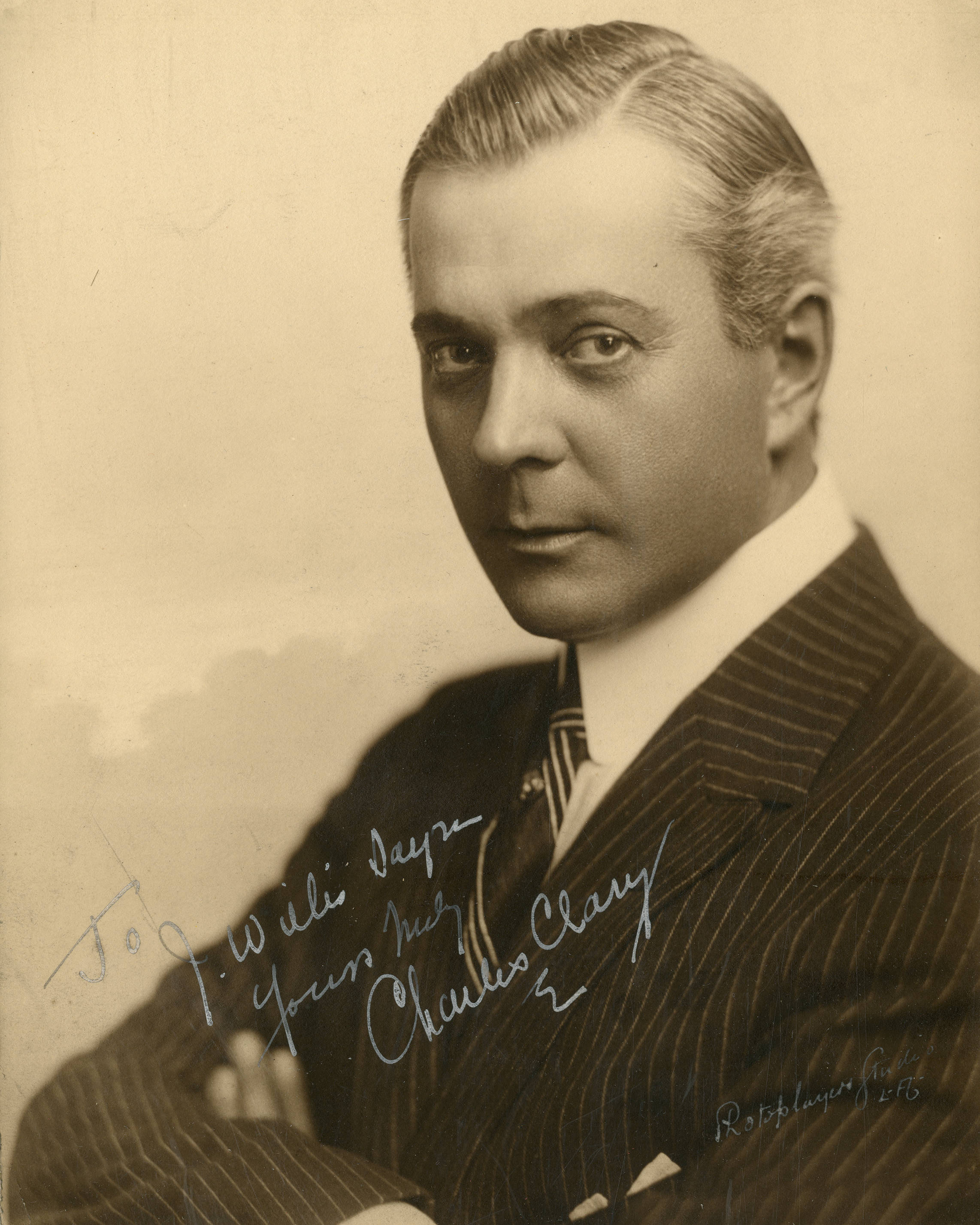 Charles P. Clary, stock actor Subjects: actors